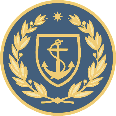 Navy of Georgia logo